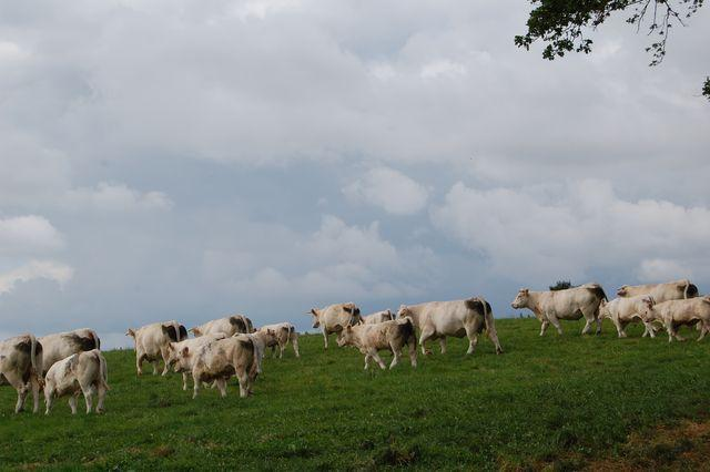 Charolais cattle herd in France